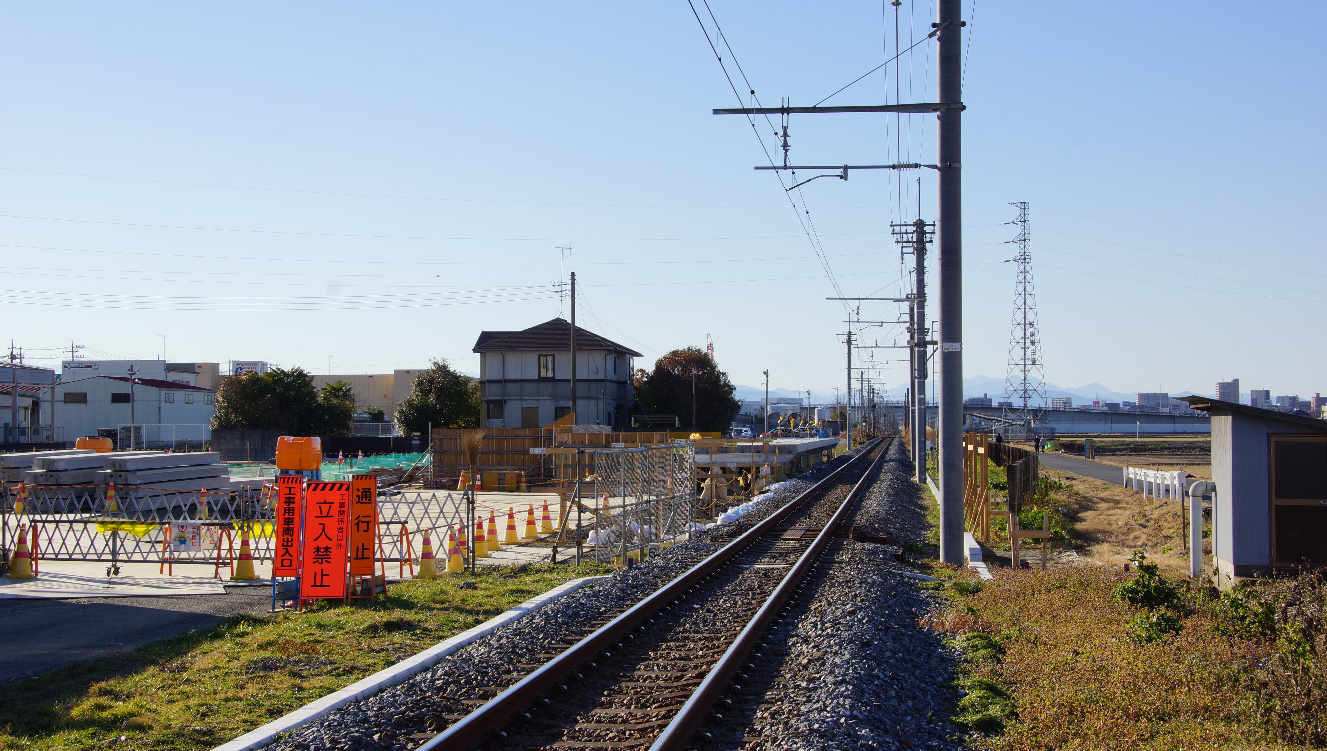 The platform at Socio Ryutsu Center Station viewed from the east, under construction in Saitama Prefecture, Japan